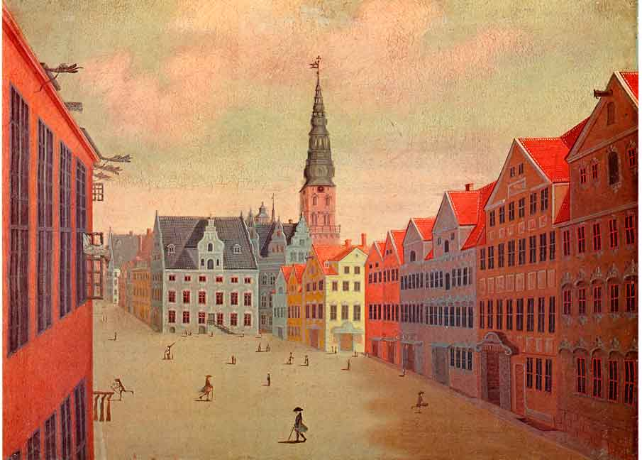 Painting of Amagertorv in 1749 and Thus before the fire of 1796 in Copenhagen, Denmark